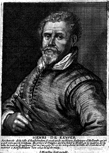 Portrait of Hendrick de Keyser in Cornelis de Bie's Gulden Cabinet.